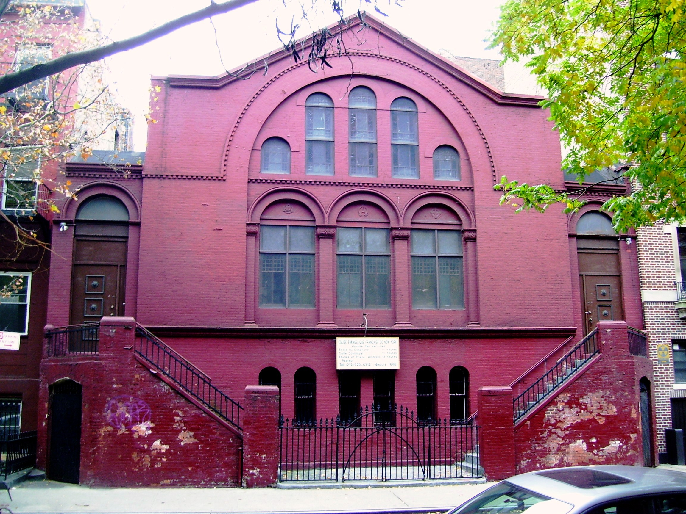 The church at 126 West 16th Street between Sixth and Seventh Avenues in the Chelsea neighborhood of Manhattan, New York City, was built c.1835 in the Rundbogenstil style. It was used by the Catholic Apostolic Church from the 1850s until 1886, when they moved to a new church on West 57th Street, which is now the Lutheran Church for All Nations. The sanctuary on 16th Street was renovated in 1886 by Alfred D. F. Hamlin for the use of the Église Évangélique Française (French Evangelical Church), a Presbyterian congregation which began in 1846. (Sources: From Abyssinian to Zion (2004) and AIA Guide to NYC (4th ed.)